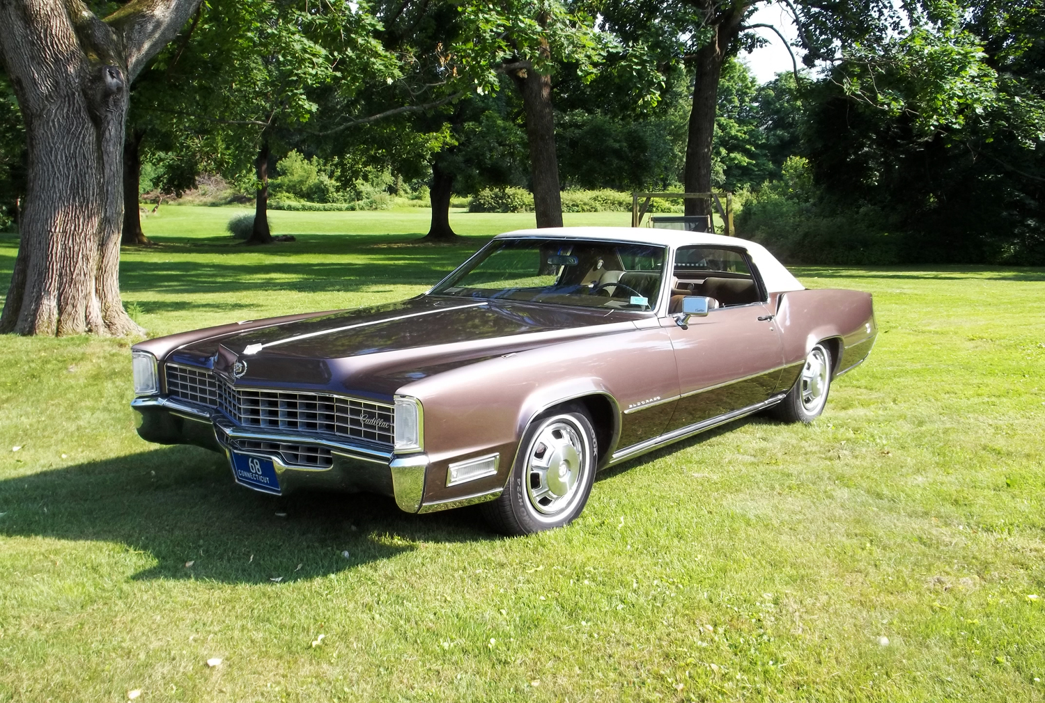 Today was a beautiful day so I took my car over to a friends house to get some new photographs of it. The colour is Rosewood Firemist.